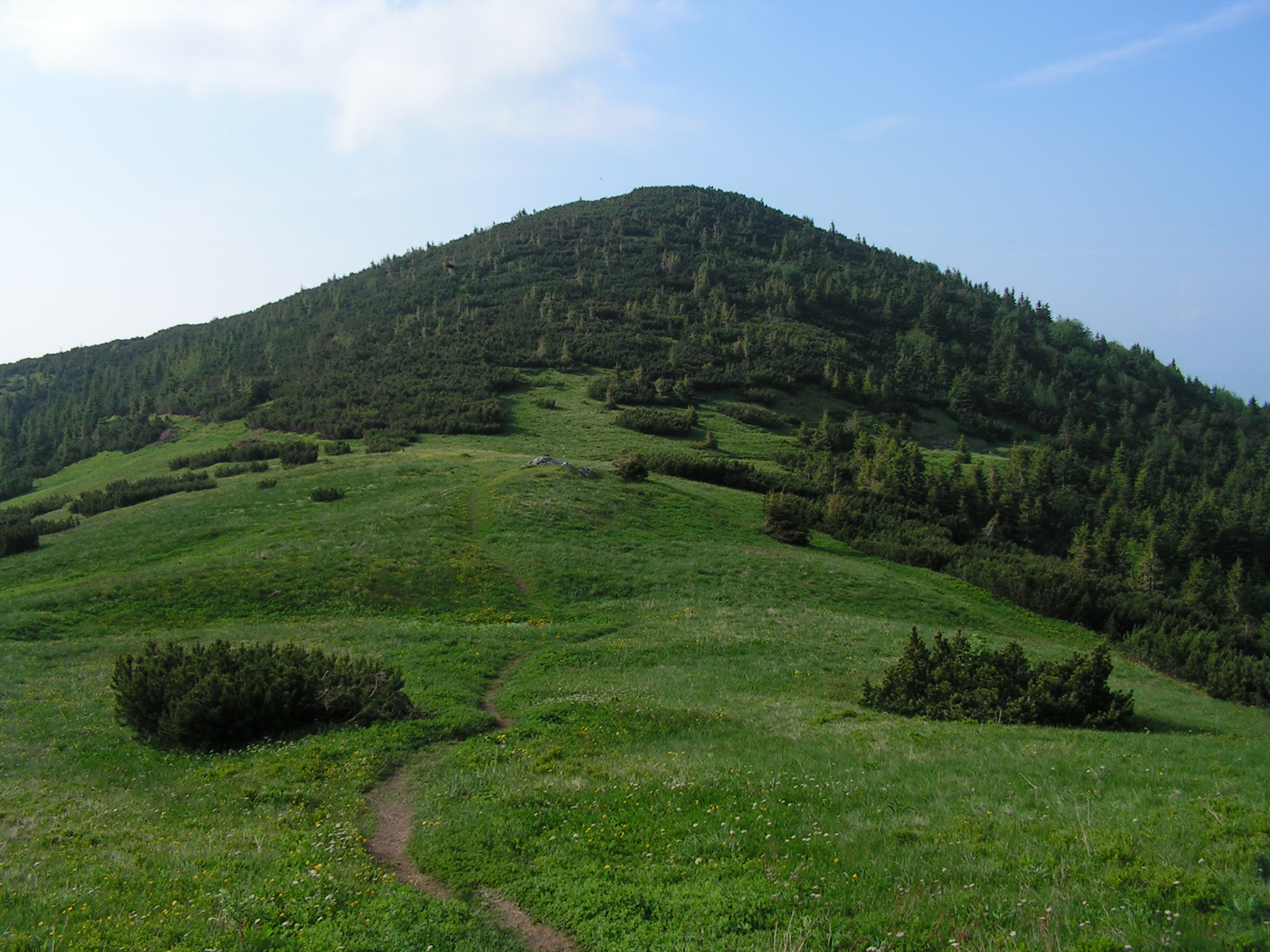 Malá kopa – view from above Predúvratie saddle.